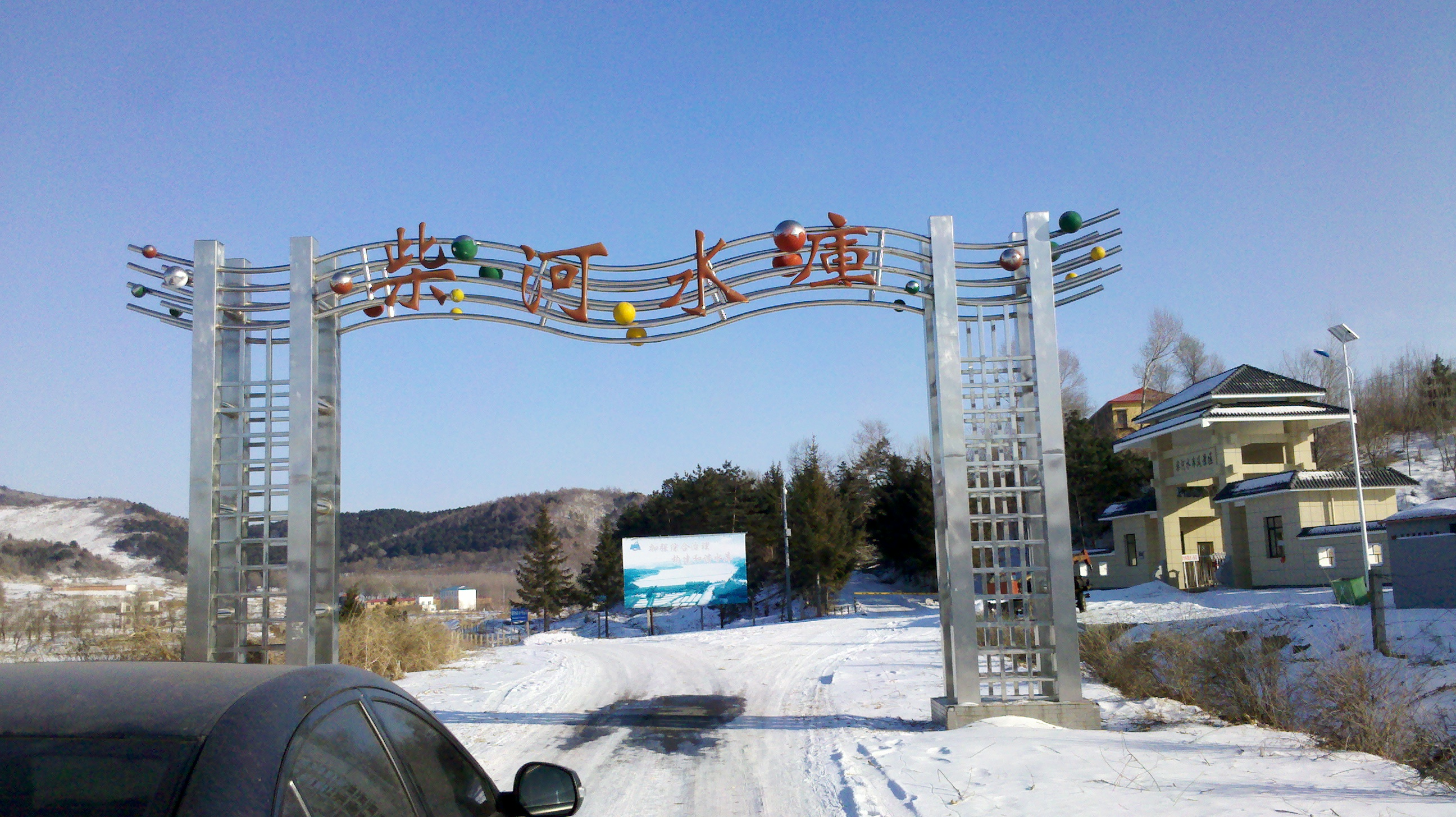 Chai River (Chaihe) Reservoir or Chai River (Chaihe) Dam is a reservoir in Tieling City, Liaoning Province, China. It provides drinking water for Tieling and several nearby cities.